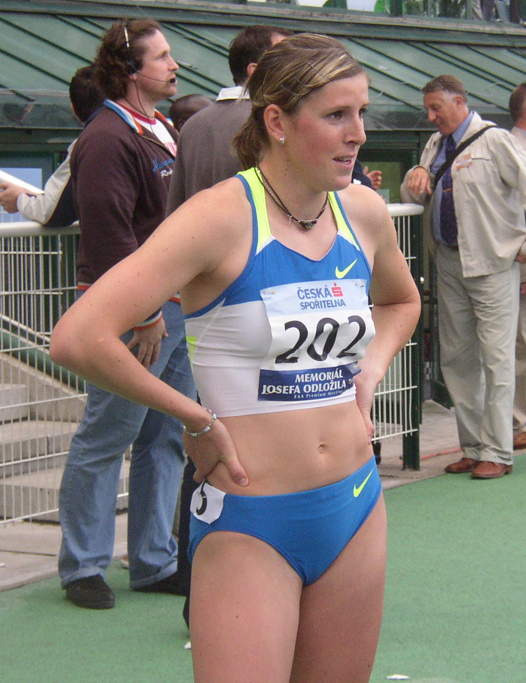 Czech sprinter Zuzana Hejnová giving an interview moments after 400 m hurdles final at Josef Odložil Memorial in Prague, June 16, 2008 (1st place in 55.76).